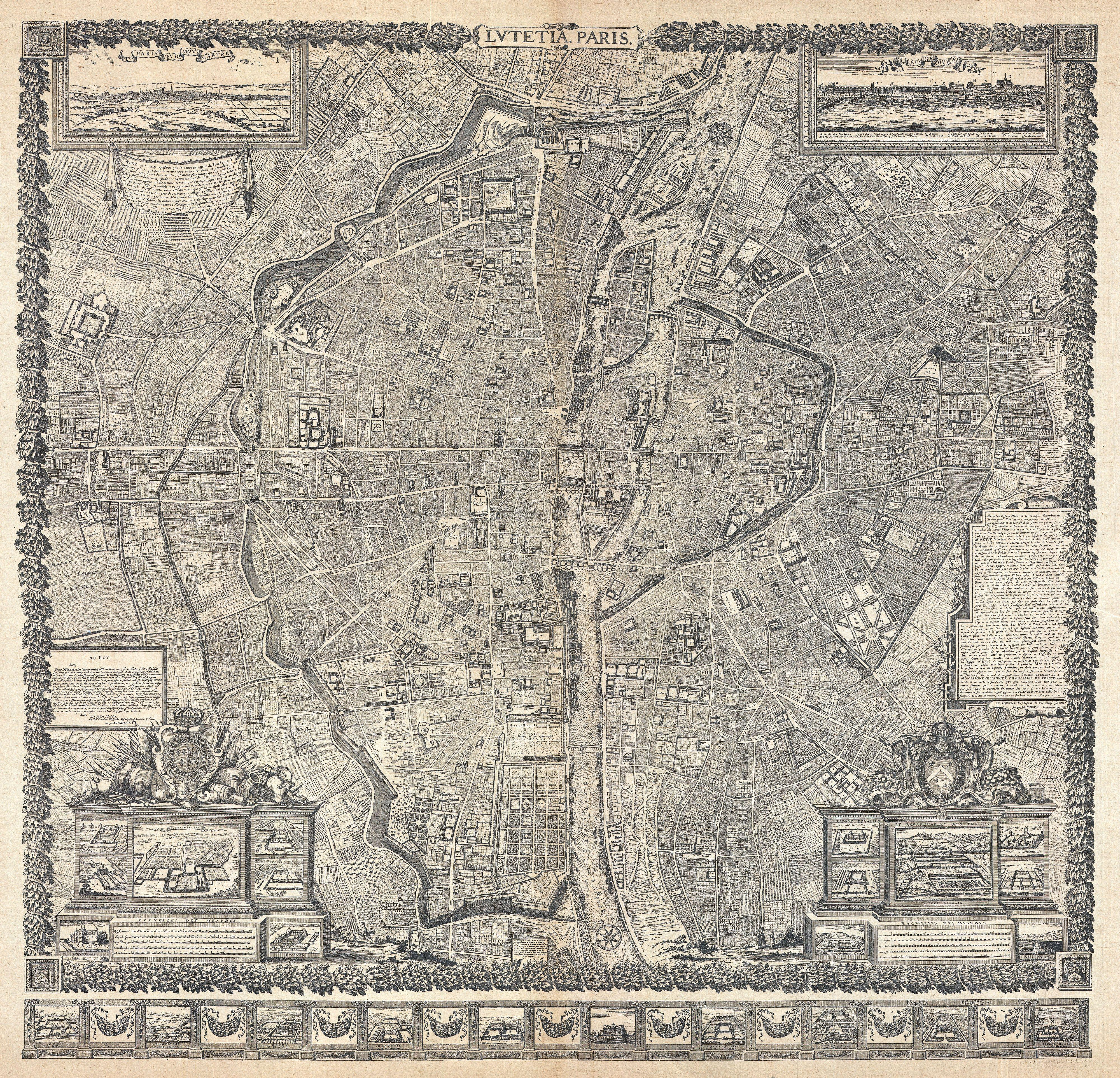 This is a reduction of a plan of Paris originally issued in 1652 by Jacques Gomboust. Gomboust held the position of Ingenieur du Roi and, in that capacity completed a number of important survey's of Paris which eventually evolved into this spectacular map. Oriented to the east, this map covers Paris from the Bastille to the Tuileries Garden and from St. Lazare to the Pont de Fauxbourg de St. Jacques. This is the geometric delineation of Paris and offers numerous decorative elements, including profile views of all significant Paris buildings. Views of the city itself decorate the upper right and left quadrants. The lower right and left quadrants feature dramatic neoclassical pedestals surmounted by baroque armorial crests. The pedestals themselves contain views of fifteen important Parisian buildings. A textual dedication to King Louis XIV appears to the left of the map. On the right hand side of the map, there are notes in French detailing the construction of the map. Surrounded by a decorative vine motif border. This map is a seminal cartographic masterpiece that bridges the gap between city plans as views and modern maps. All previous map of Paris depicted the city in the form of elevated profile views - thus any looking at the map might recognize this or that building by is well known appearance from the ground. While Gomboust retains this feature with regard to Paris' most important structures, for the most part, he creates a modern map, displaying the city as it would appear from directly above. At the time, this was a very impractical way to depict Paris, for the average person would be incapable of interpreting such a presentation. In viewing such a map, some scholars argue, the typical Parisian embraces the King's View of the city, and thus embraces his authority. This is the c. 1900 Taride reissue. The original 1652 plan is today unobtainable.